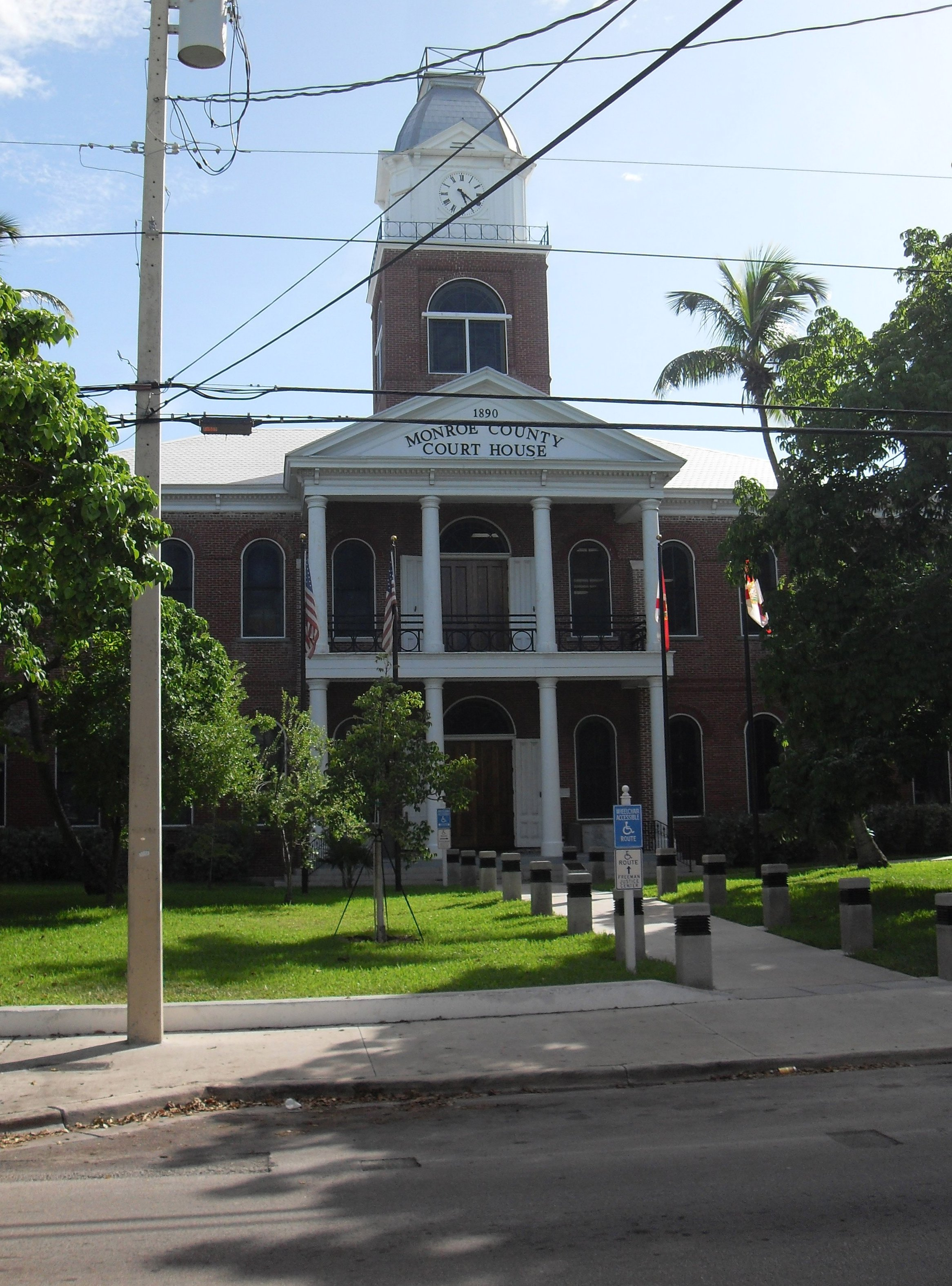 Monroe County courthouse in Key West, Florida